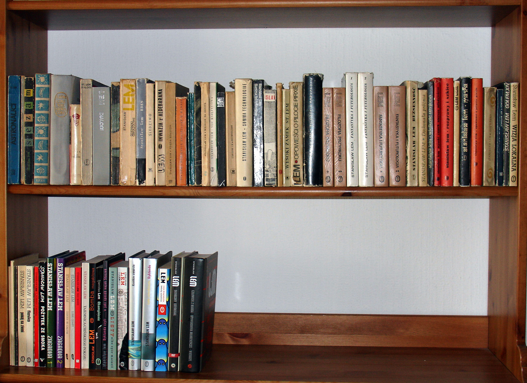 Collection of all first book editions of Stanisław Lem's writings